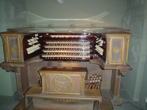 This is the old console for the pipe organ at the Cathedral Basilica of Saint Louis, St. Louis, Missouri. This console was originally behind the sanctuary where it controlled the organ. This console was replaced by a new console that was made by the Wicks Organ Company of Highland, Illinois in the late 1990's. The original console is no longer functional, and it was moved into the basement museum where it can be seen by visitors. I took this picture in December of en:2004. JesseG 03:30, Dec 29, 2004 (UTC)